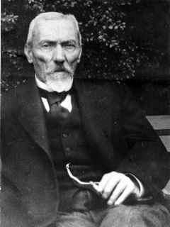 photographer 1910